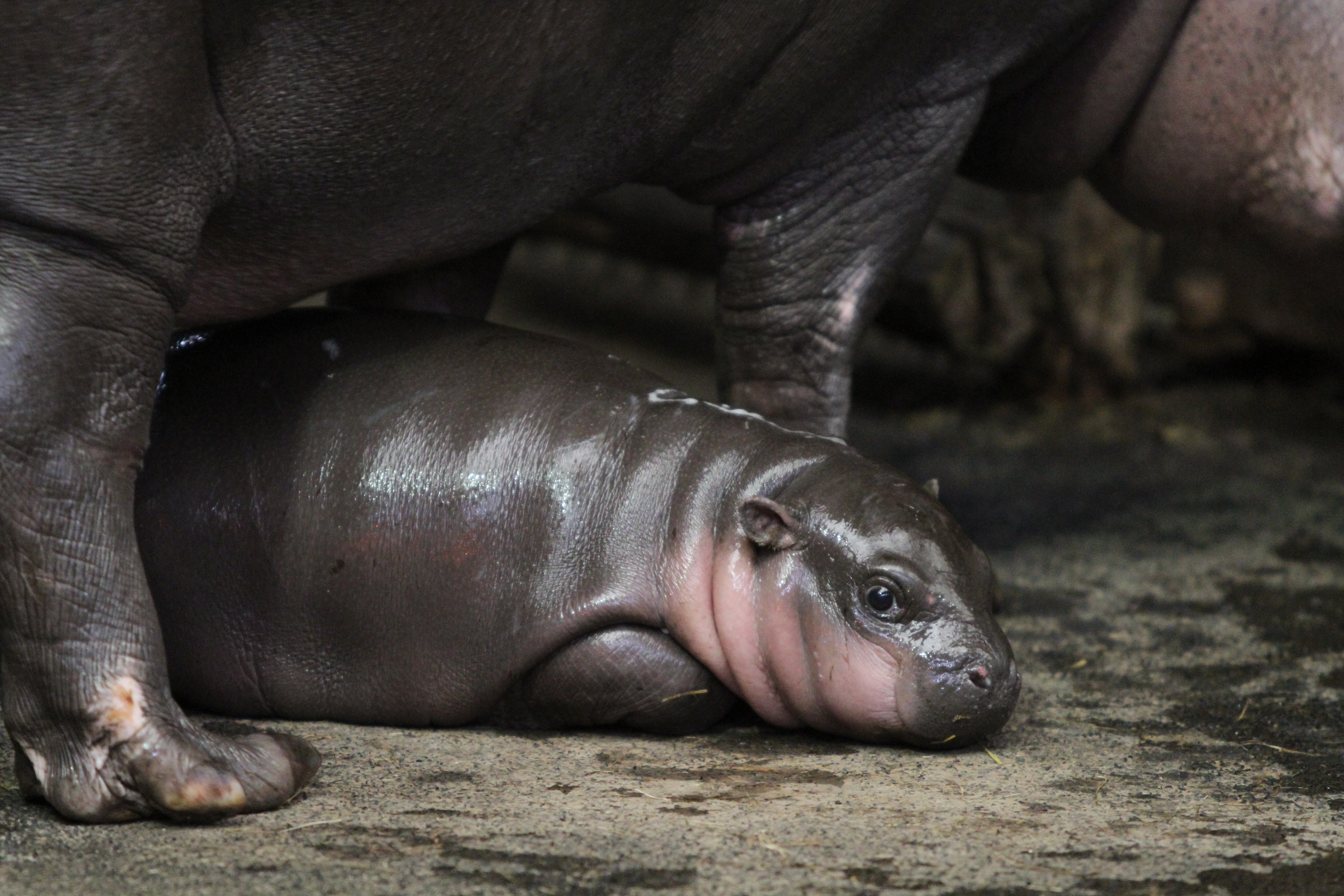 One-month old Hexaprotodon liberiensis in Diergaarde Blijdorp